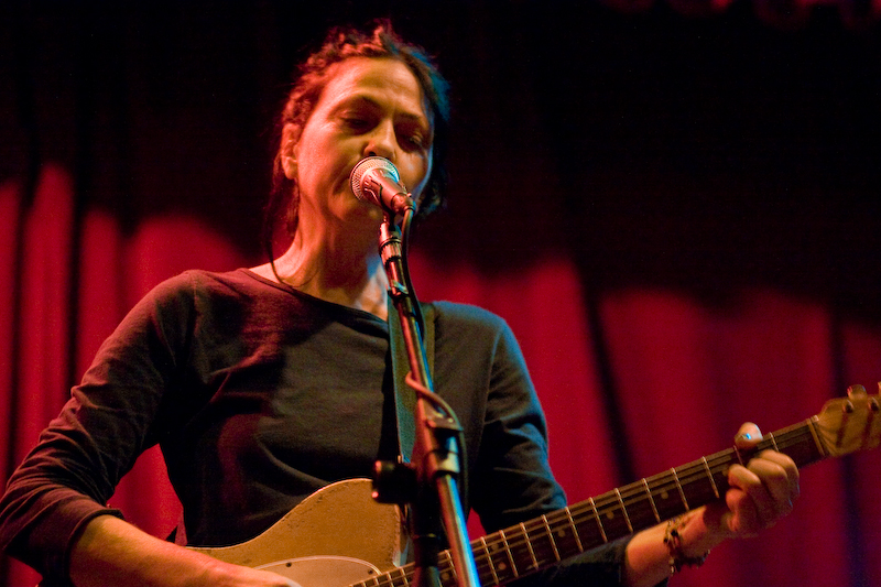 Lisa Germano at Tonic